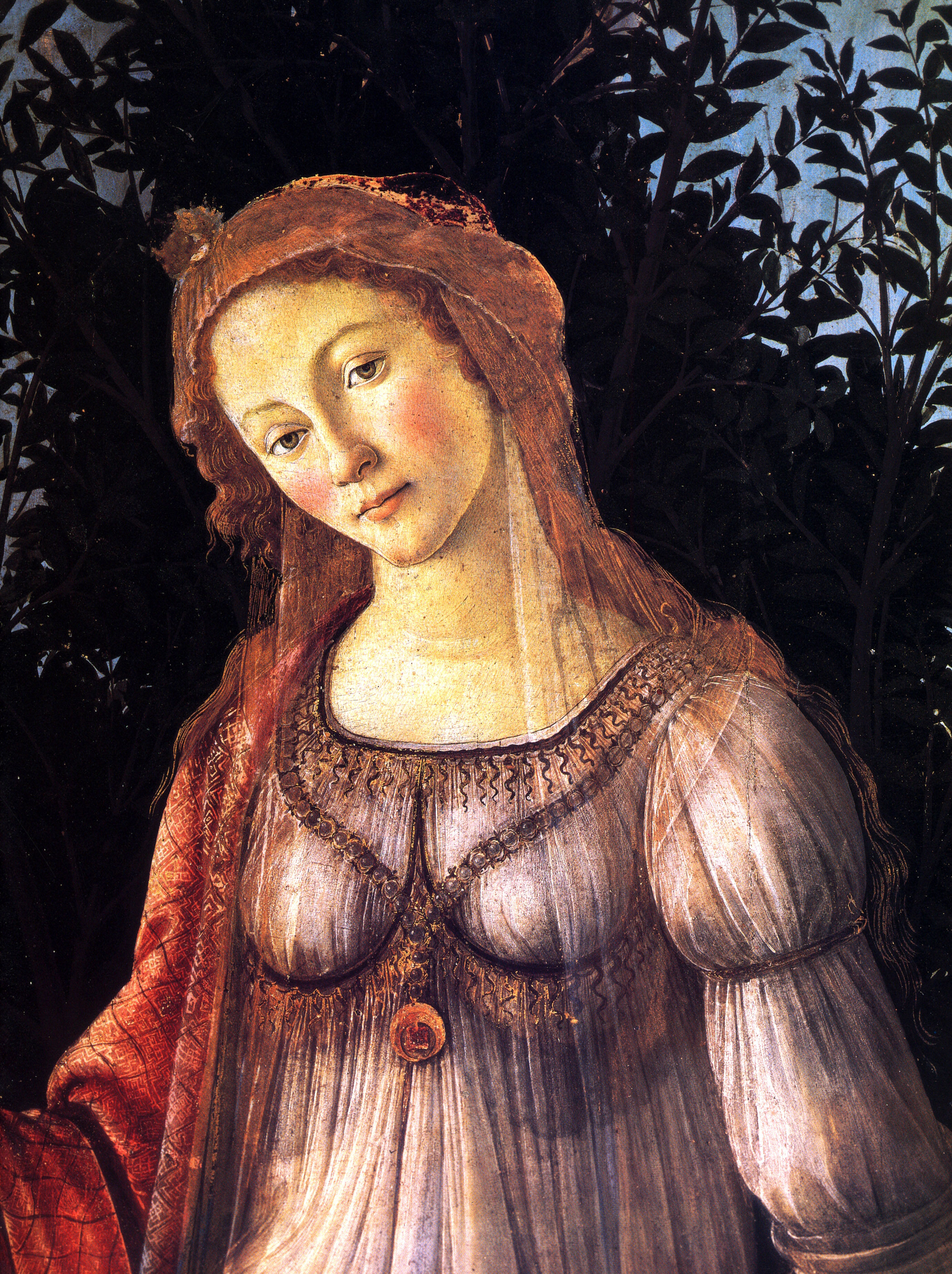 Sandro Botticelli, Primavera (detail)